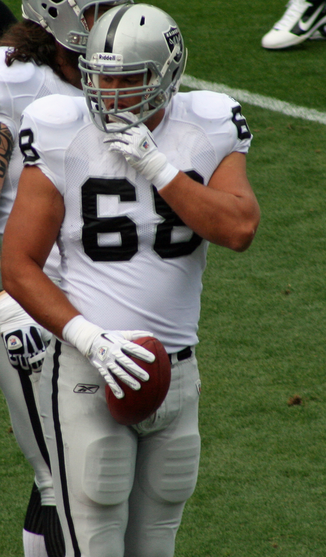 Jared Veldheer, a player on the Oakland Raiders American football team.